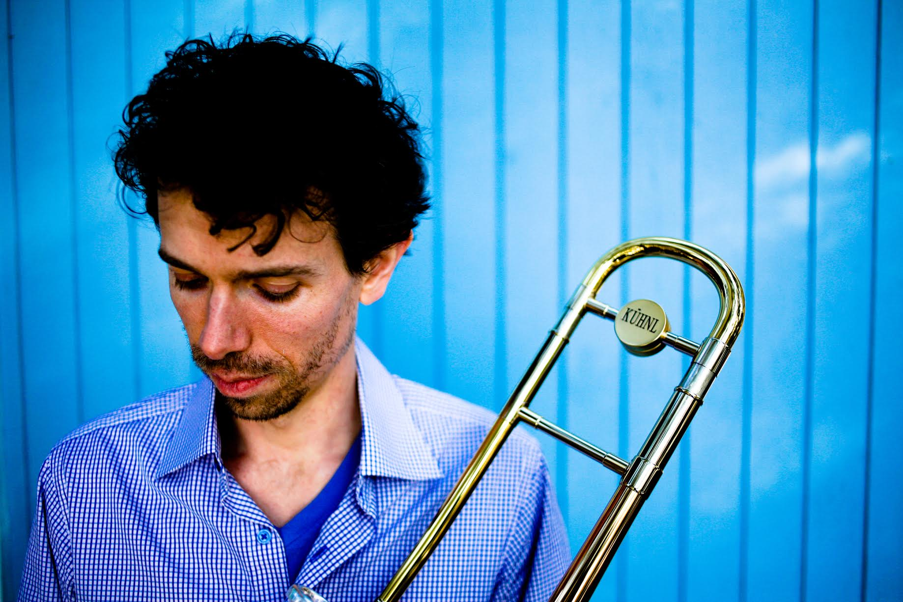 Photograph of trombonist Ryan Keberle in 2012.